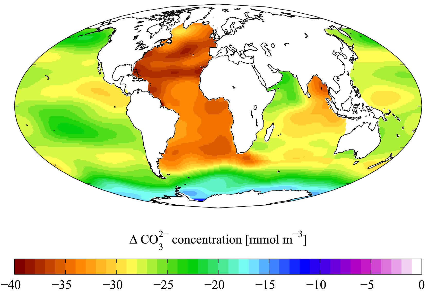 Change in sea surface carbonate ion (CO32-) concentration from the pre-industrial period (1700s) to the present day (1990s). Calculated using Richard Zeebe's csys package with data from the Global Ocean Data Analysis Project and World Ocean Atlas climatologies. Δ CO32- here is in mmol m-3 of seawater. It is plotted here using a Mollweide projection (using MATLAB and the M_Map package). Note that the GLODAP climatology is missing data in certain oceanic provinces including the Arctic Ocean, the Caribbean Sea, the Mediterranean Sea and the Malay Archipelago.